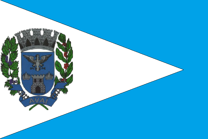 Flag of Avaí, state of São Paulo, Brazil. This work is in the public domain in Brazil for one of the following reasons: It is a work published or commissioned by a Brazilian government (federal, state, or municipal) prior to 1983.(Law 3071/1916, art. 662; Law 5988/1973, art. 46; Law 9610/1998, art. 115) It is the text of a treaty, convention, law, decree, regulation, judicial decision, or other official enactment.(Law 9610/1998, art. 8) This image shows a flag, a coat of arms, a seal or some other official insignia. The use of such symbols is restricted in many countries. These restrictions are independent of the copyright status.